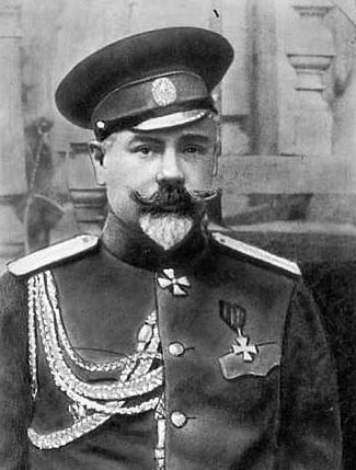 Anton Denikin, Russian General , one of the leaders of White Army in Russia(till 1919)